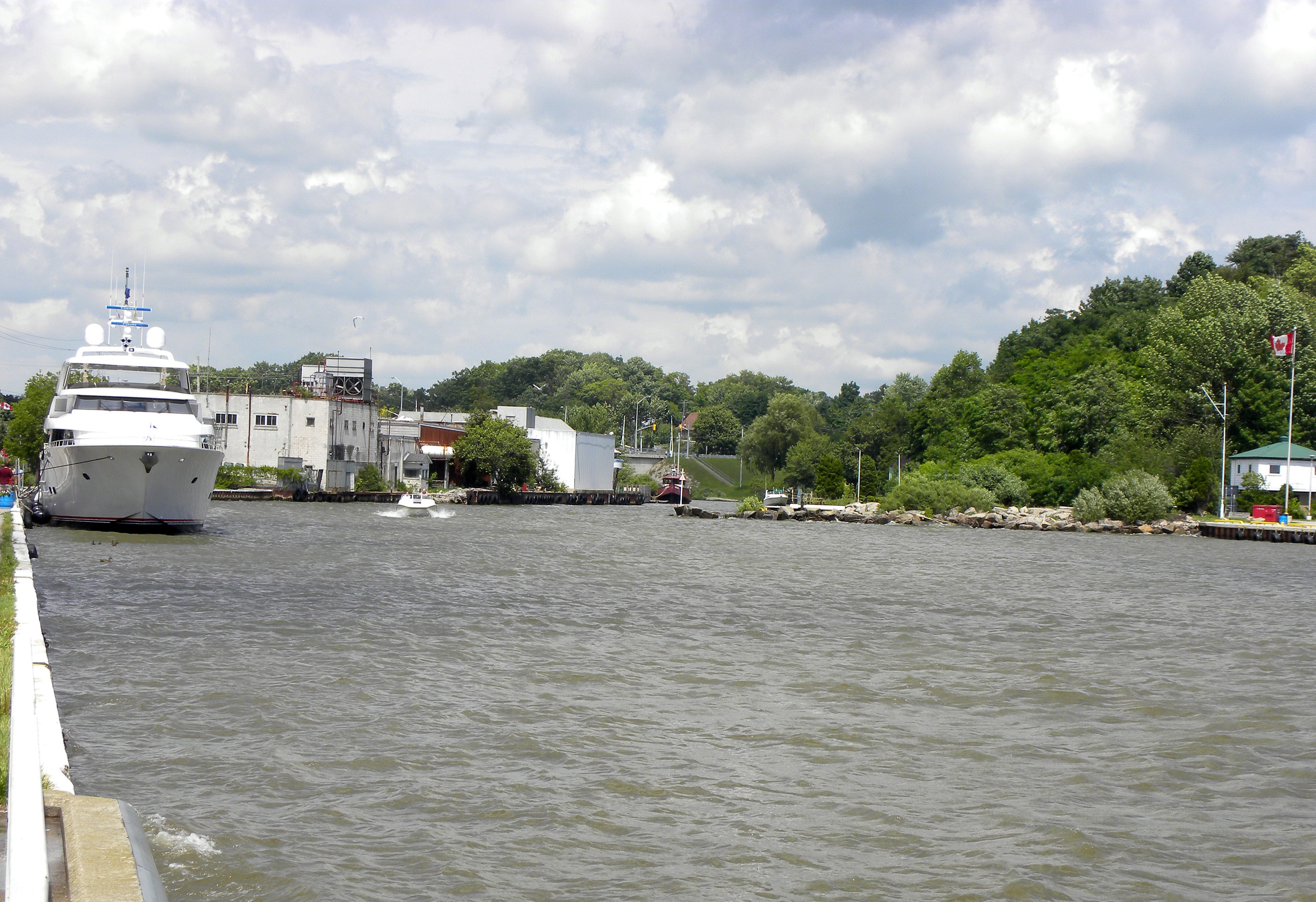 Port Dover (cont.)